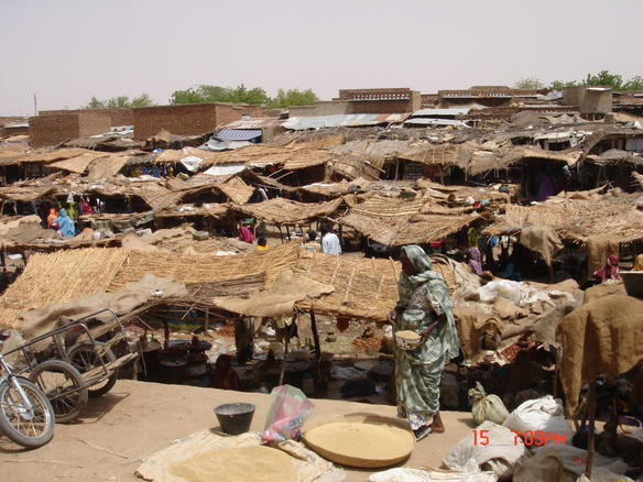 Marketplace in Abeche, Chad. Sony Cyber-shot DSC-T7